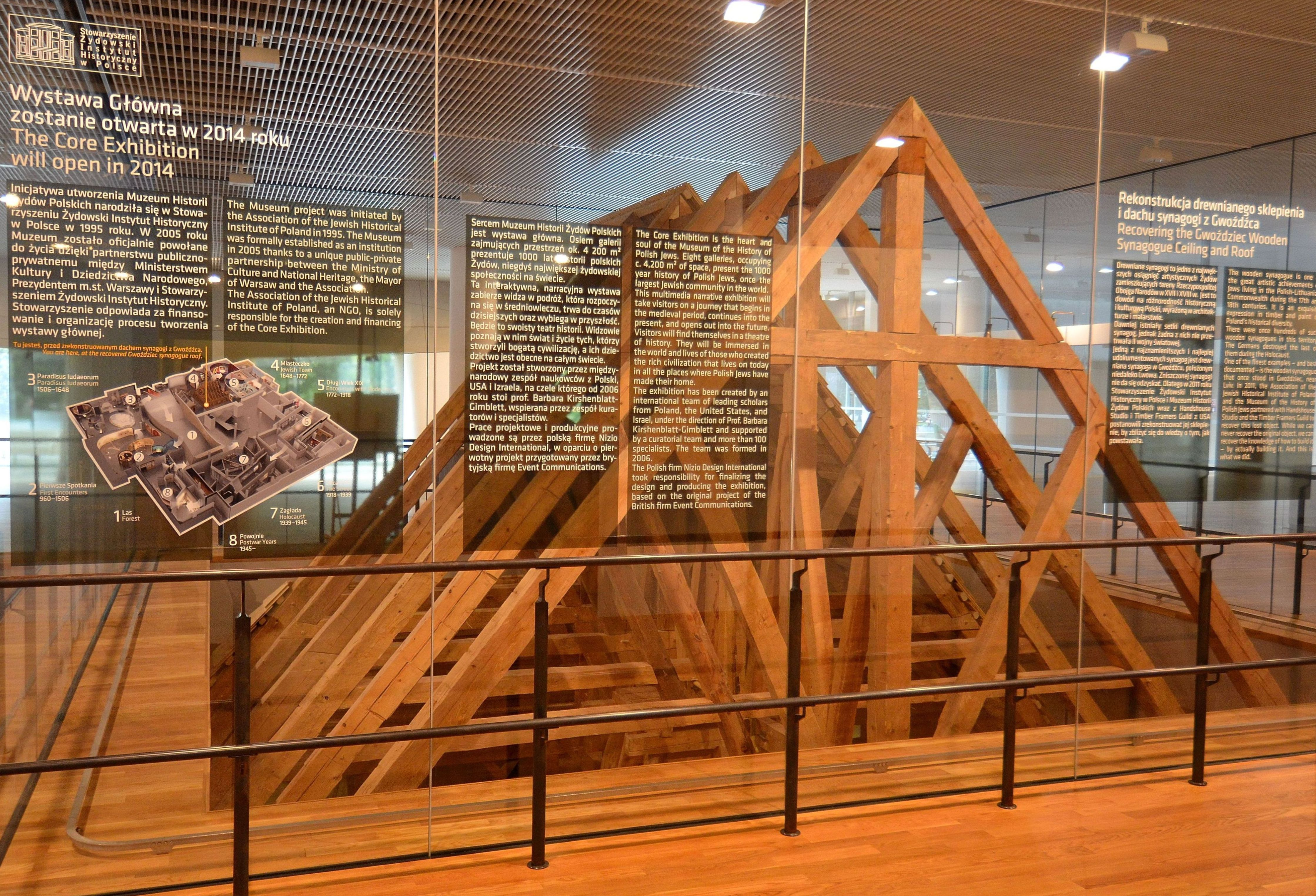 Gwoździec synagogue roof reconstruction at the Museum of the History of Polish Jews in Warsaw